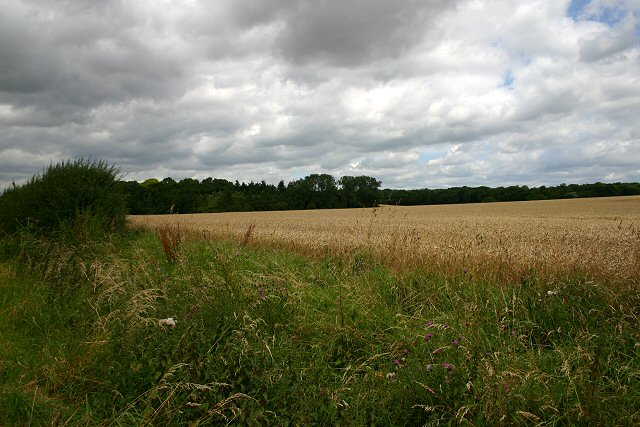 Trundley Wood Viewed from the Stour Valley Path, near Great Wratting.